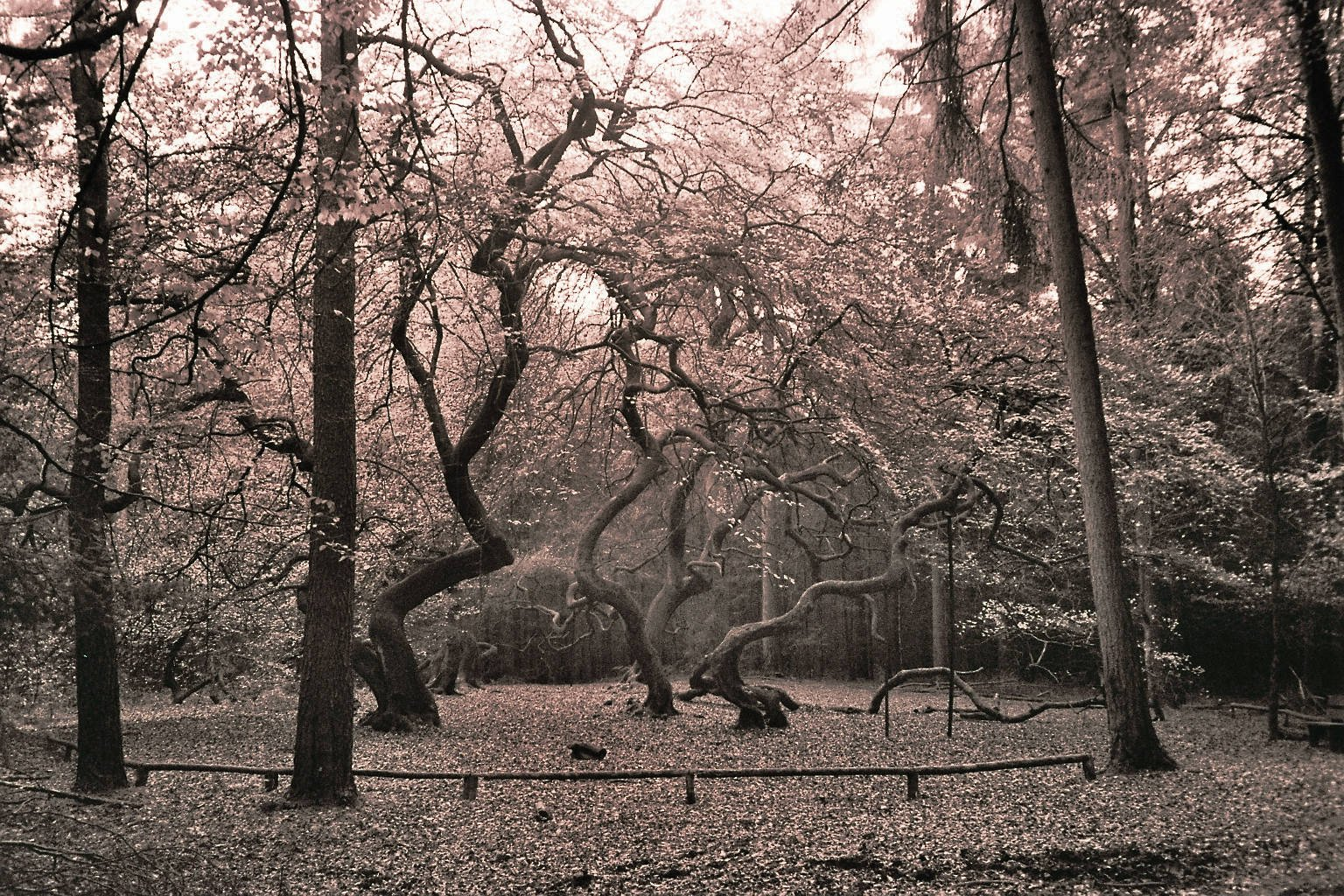 Dwarf beeches in the "Hohe Mark", Germany